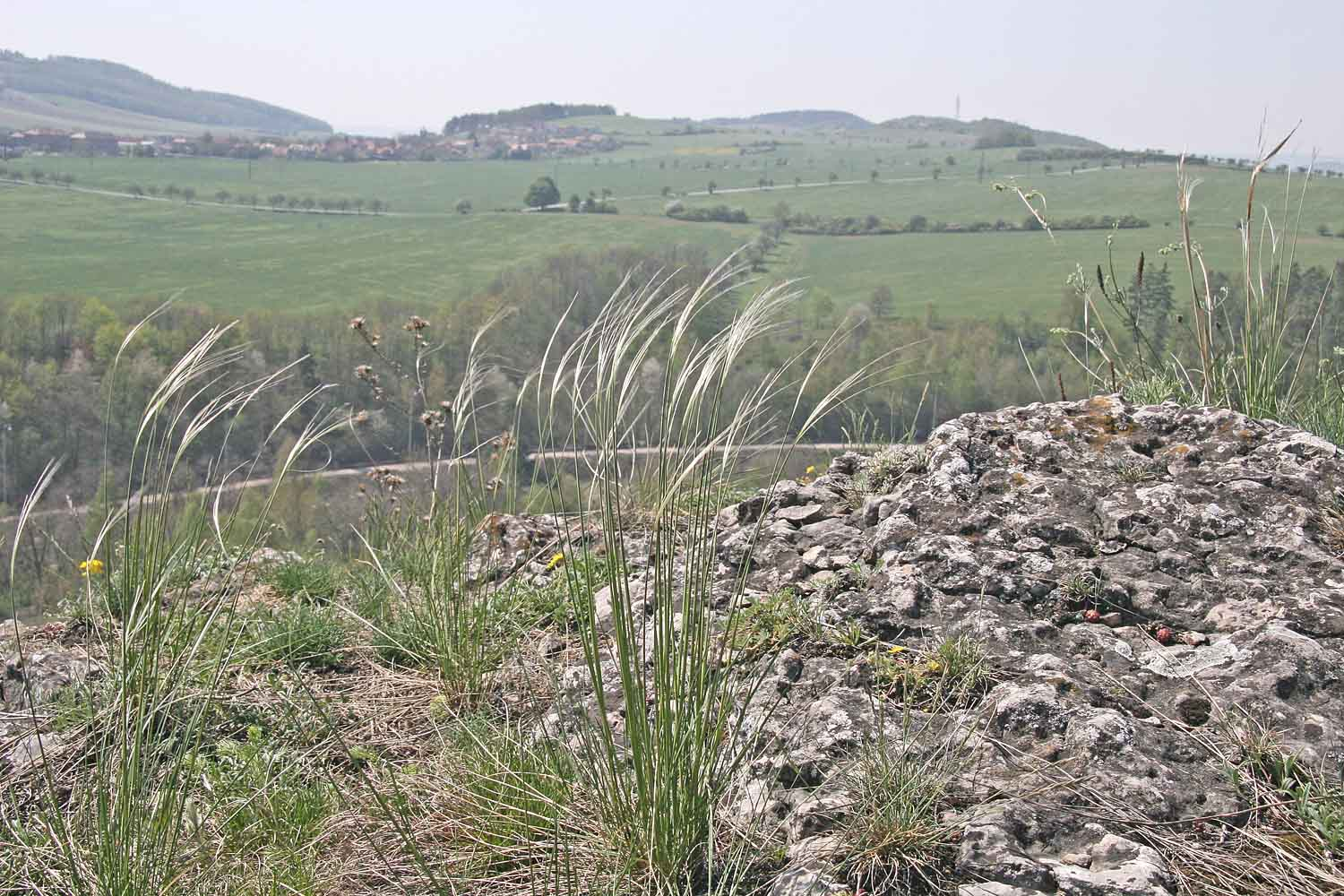 Stipa joannis near Beroun, Czech Republic Autor:Prazak